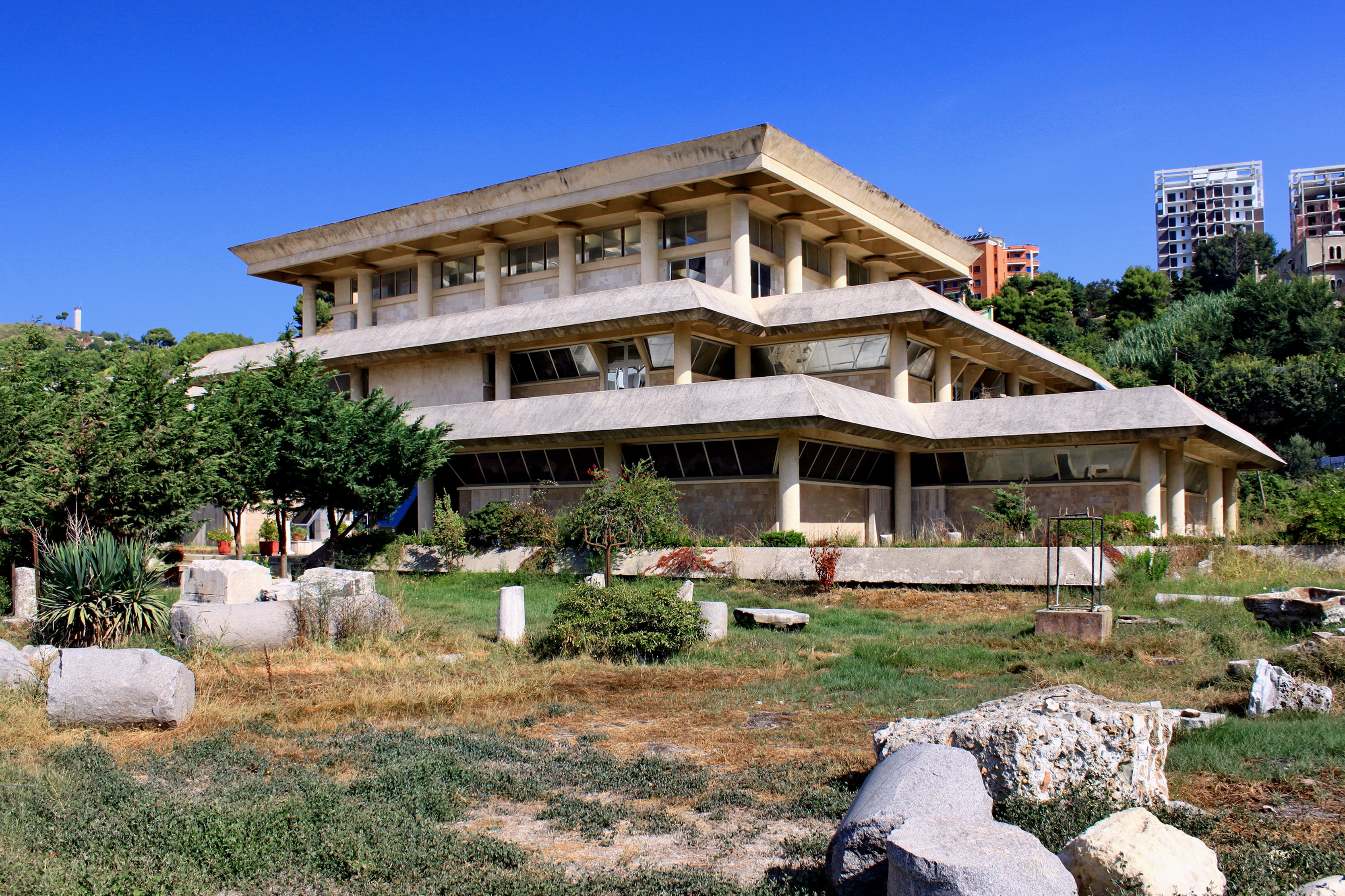 Durrës Archaeological MuseumShqip: Muzeu Arkeologjik Durrës